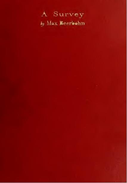 Front cover of A Survey